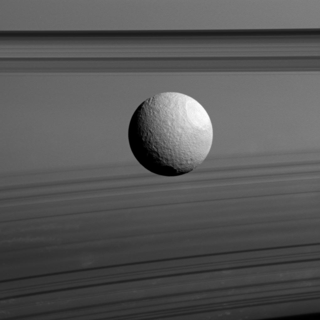 PIA18355: Ices and Shadows Saturn's moon Tethys appears to float between two sets of rings in this view from NASA's Cassini spacecraft, but it's just a trick of geometry. The rings, which are seen nearly edge-on, are the dark bands above Tethys, while their curving shadows paint the planet at the bottom of the image. Tethys (660 miles or 1,062 kilometers across) has a surface composed mostly of water ice, much like Saturn's rings. Water ice dominates the icy surfaces in the the far reaches of our solar system, but ammonia and methane ices also can be found. The image was taken in visible light with the Cassini spacecraft wide-angle camera on Nov. 23, 2015. North on Tethys is up. The view was obtained at a distance of approximately 40,000 miles (65,000 kilometers) from Tethys. Image scale is 2.4 miles (4 kilometers) per pixel. The Cassini mission is a cooperative project of NASA, ESA (the European Space Agency) and the Italian Space Agency. The Jet Propulsion Laboratory, a division of the California Institute of Technology in Pasadena, manages the mission for NASA's Science Mission Directorate, Washington. The Cassini orbiter and its two onboard cameras were designed, developed and assembled at JPL. The imaging operations center is based at the Space Science Institute in Boulder, Colorado. For more information about the Cassini-Huygens mission visit and The Cassini imaging team homepage is at